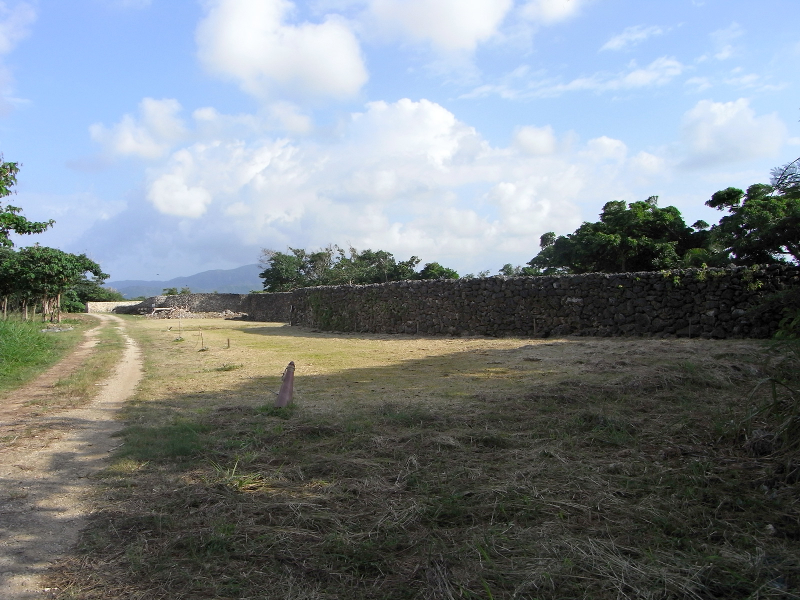 Furusuto-baru, Ishigaki, Okinawa, Japan